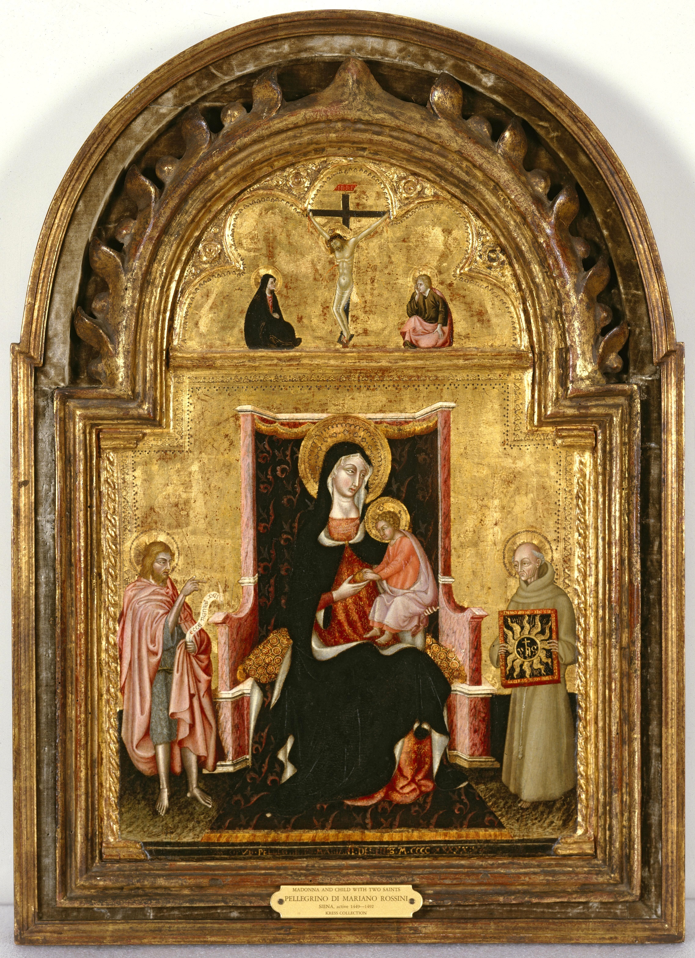 Pellegrino_di_Mariano._Madonna_with_Child_and_st._John_the_Baptist_and_st._Bernardino_of_Siena._1450.__Brooks_Museum_of_Art,_Memphis,_TN. Detail.